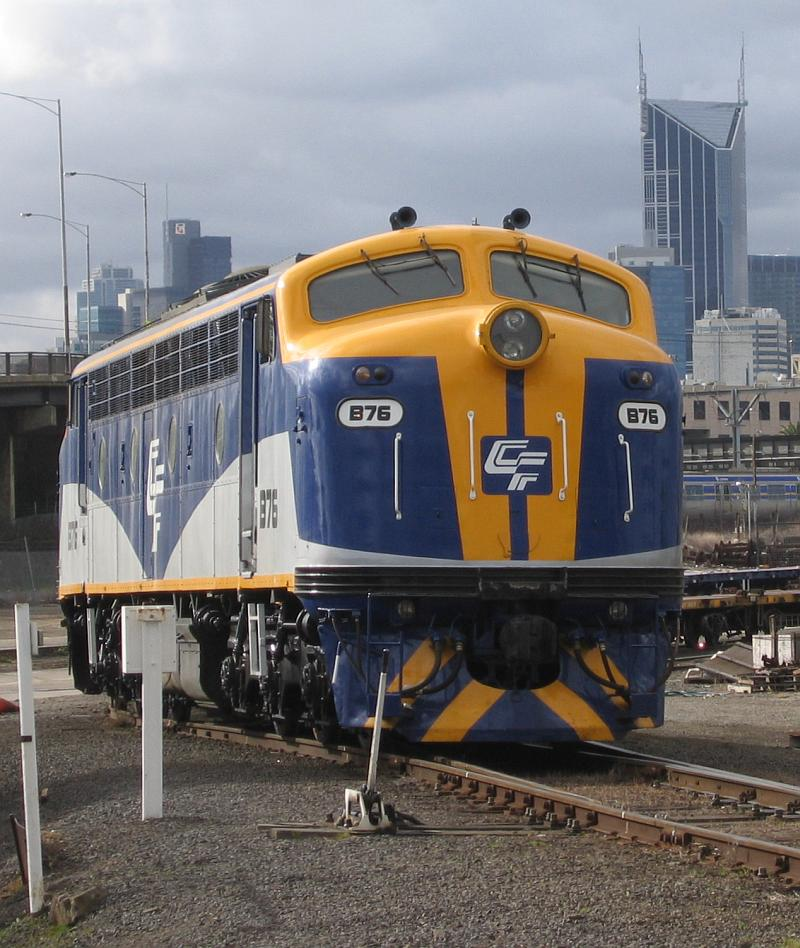 Chicago Freight Car Leasing Australia (CFCLA) B class B76 in 2006.